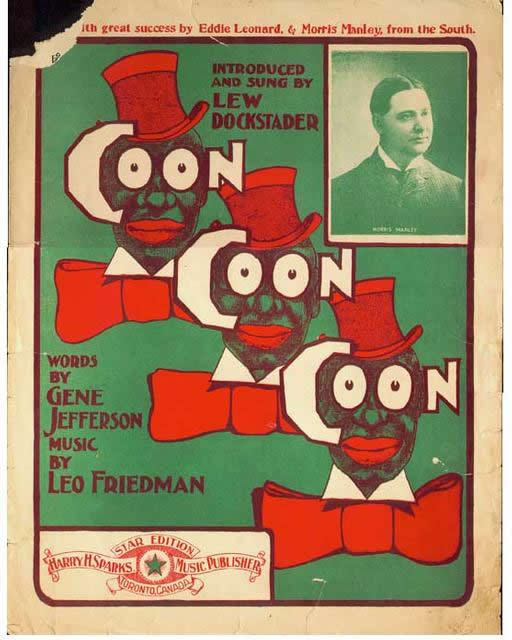 Coon, Coon, Coon songsheet cover from 1901 with photograph of Morris Manley (Q48467079) in blackface inset.